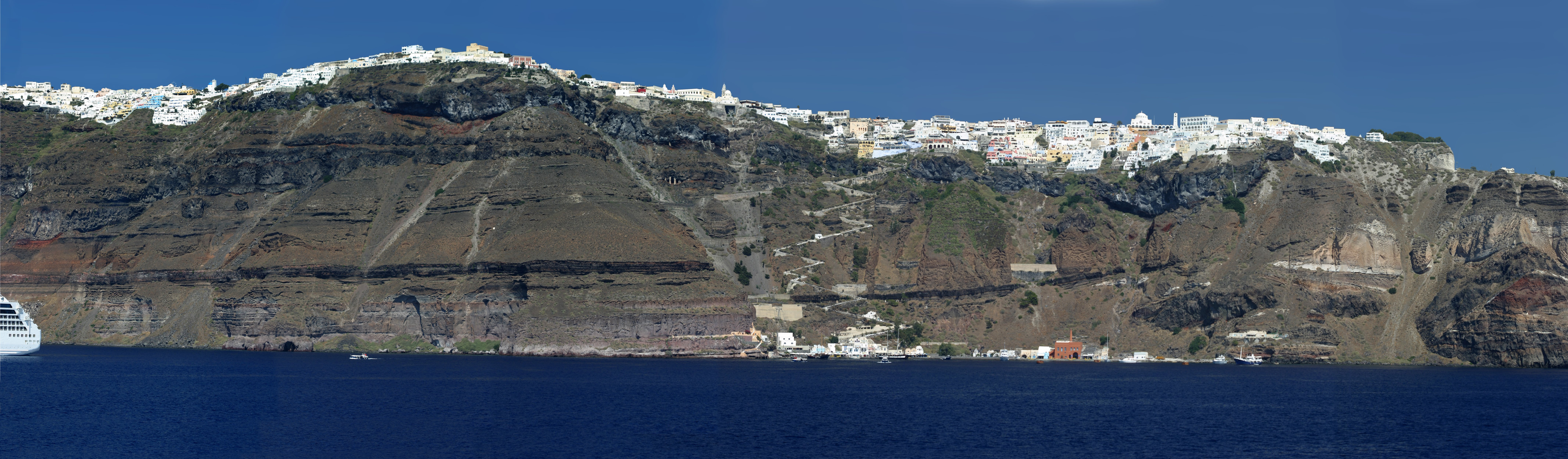 Panoramic view of Santorini's principal city, Fira.